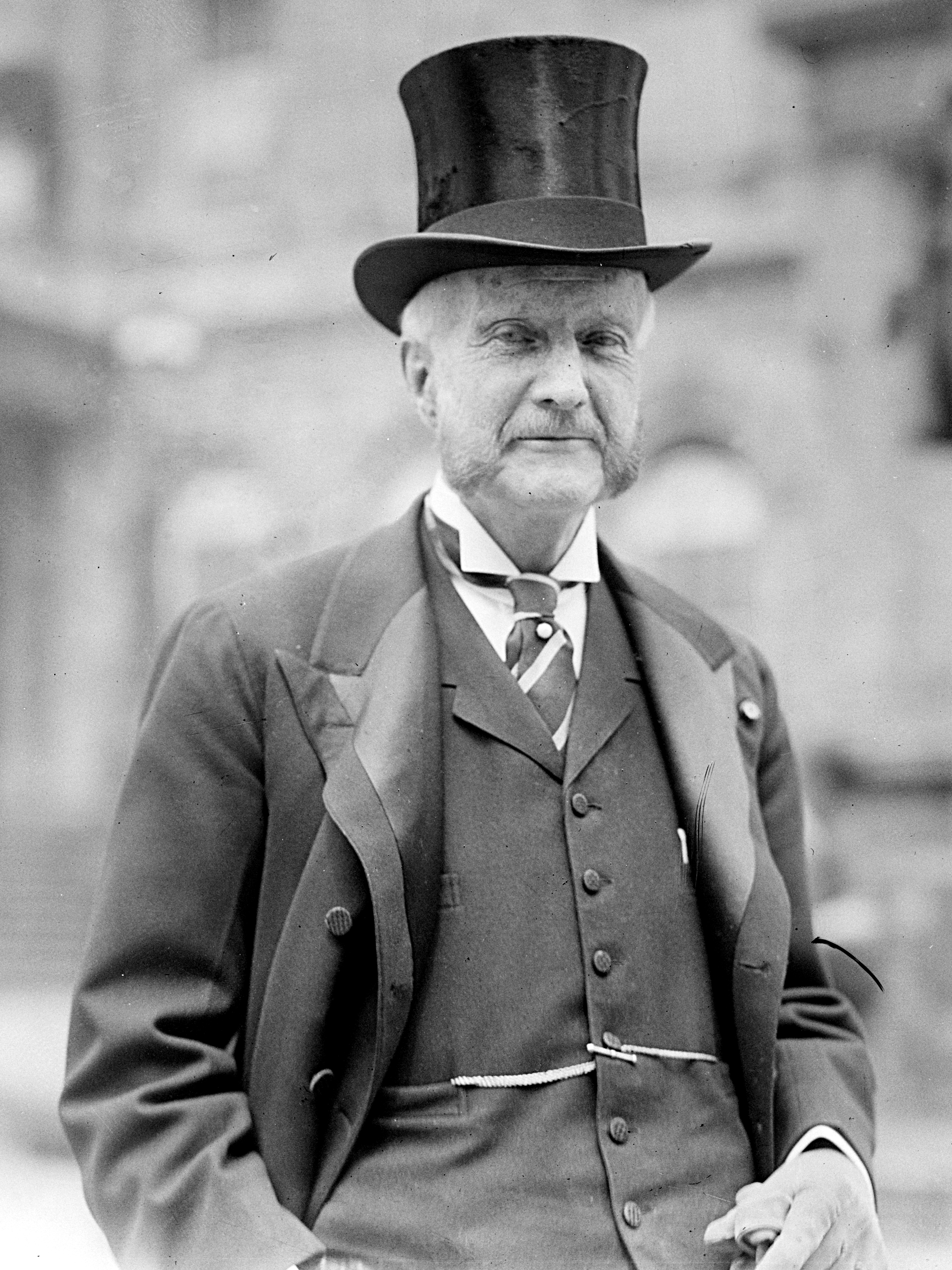 English